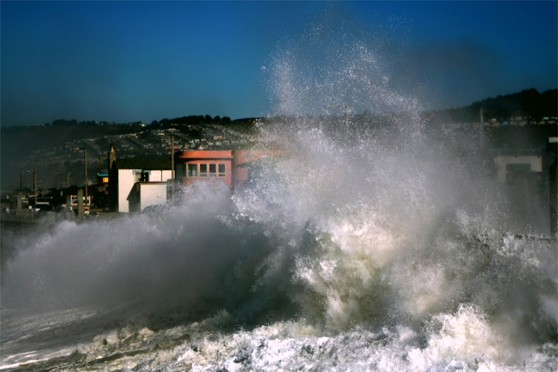 Storm in Pacifica, California